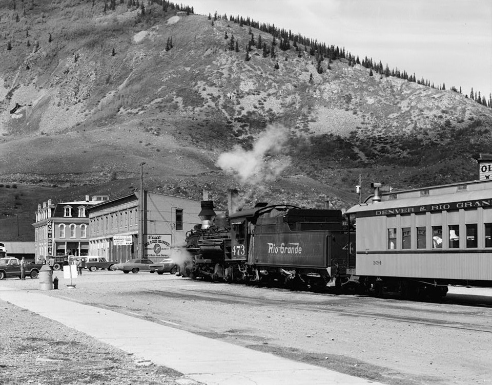 E. 12TH AND BLAIR STS. LOOKING TOWARD IMPERIAL HOTEL AND DENVER & RIO GRANDE TRAIN / D&RGW 473 HABS COLO,56-SILTN,1-11